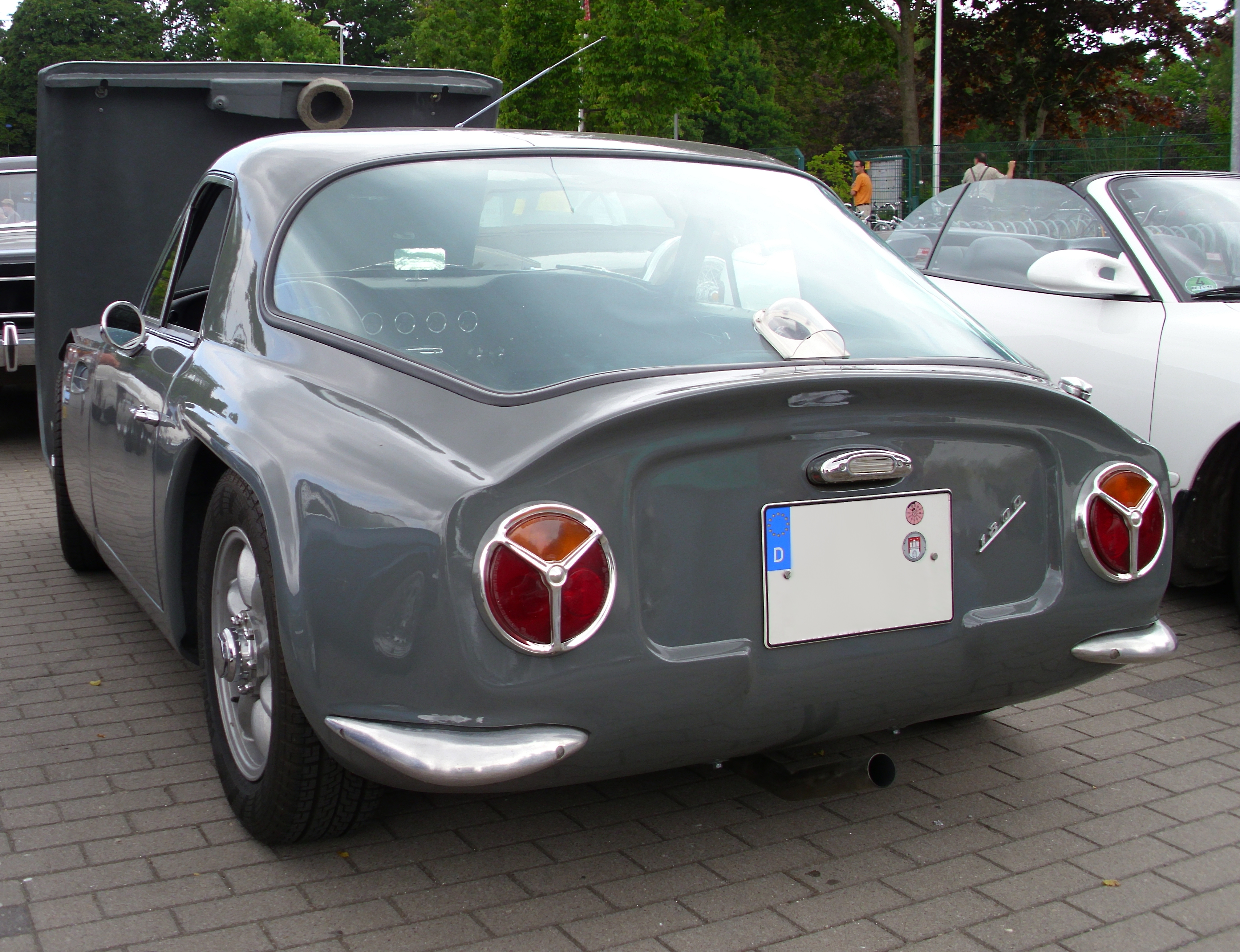 'Manx' tail of TVR Grantura Mk IV 1800 at Trittau 2010